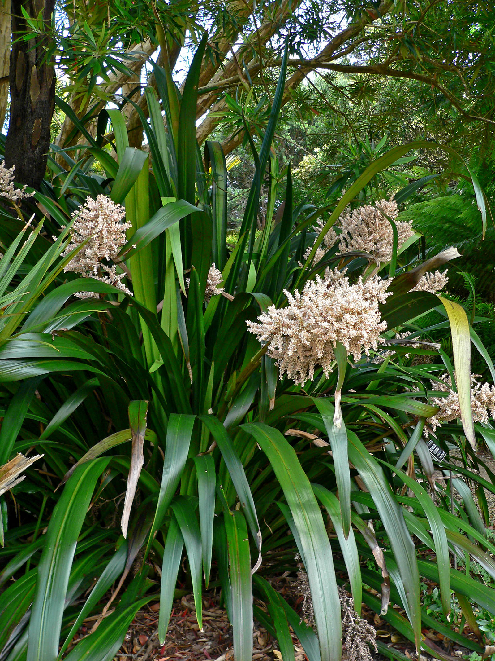 Photo of Helmholtzia glaberrima at the San Francisco Botanical Garden